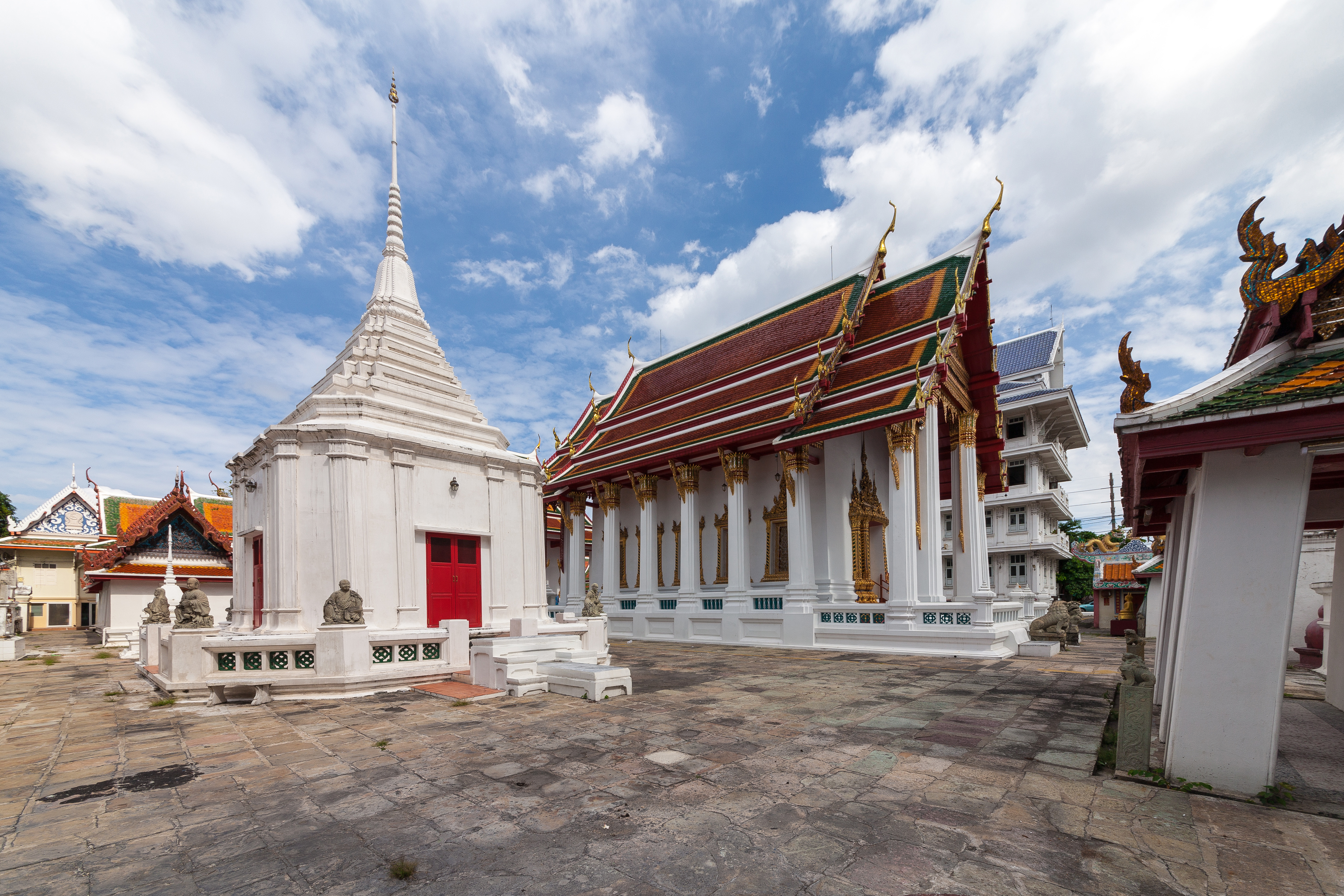 Phra Wihan of Wat Anongkharam, BKK.